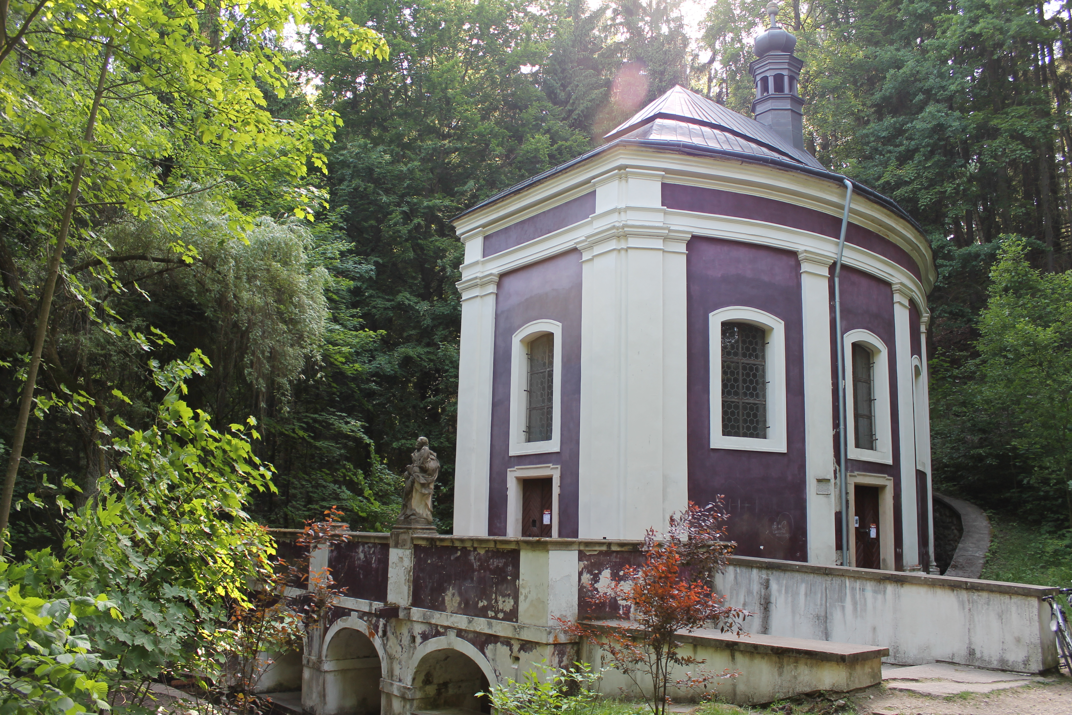 State in the year 2012